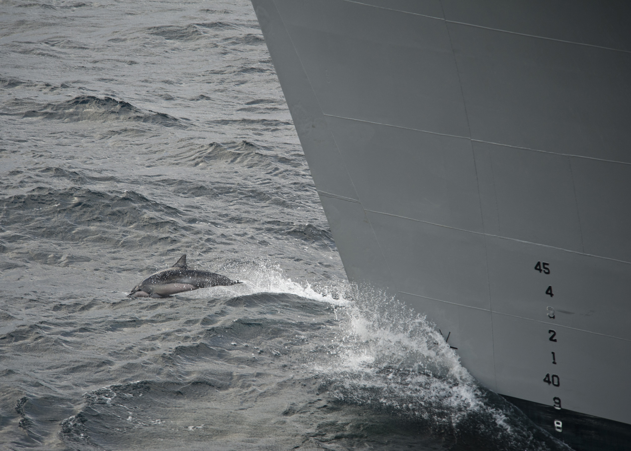 ATLANTIC OCEAN (Dec. 13, 2011) A dolphin swims in front of the bow of the Military Sealift Command fast combat support ship USNS Supply (T-AOE 6). (U.S. Navy photo by Mass Communication Specialist 3rd Class Scott Pittman/Released)